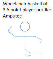 Created using information from . ISOD amputee class: A3 IWBF class: 3.5 point player